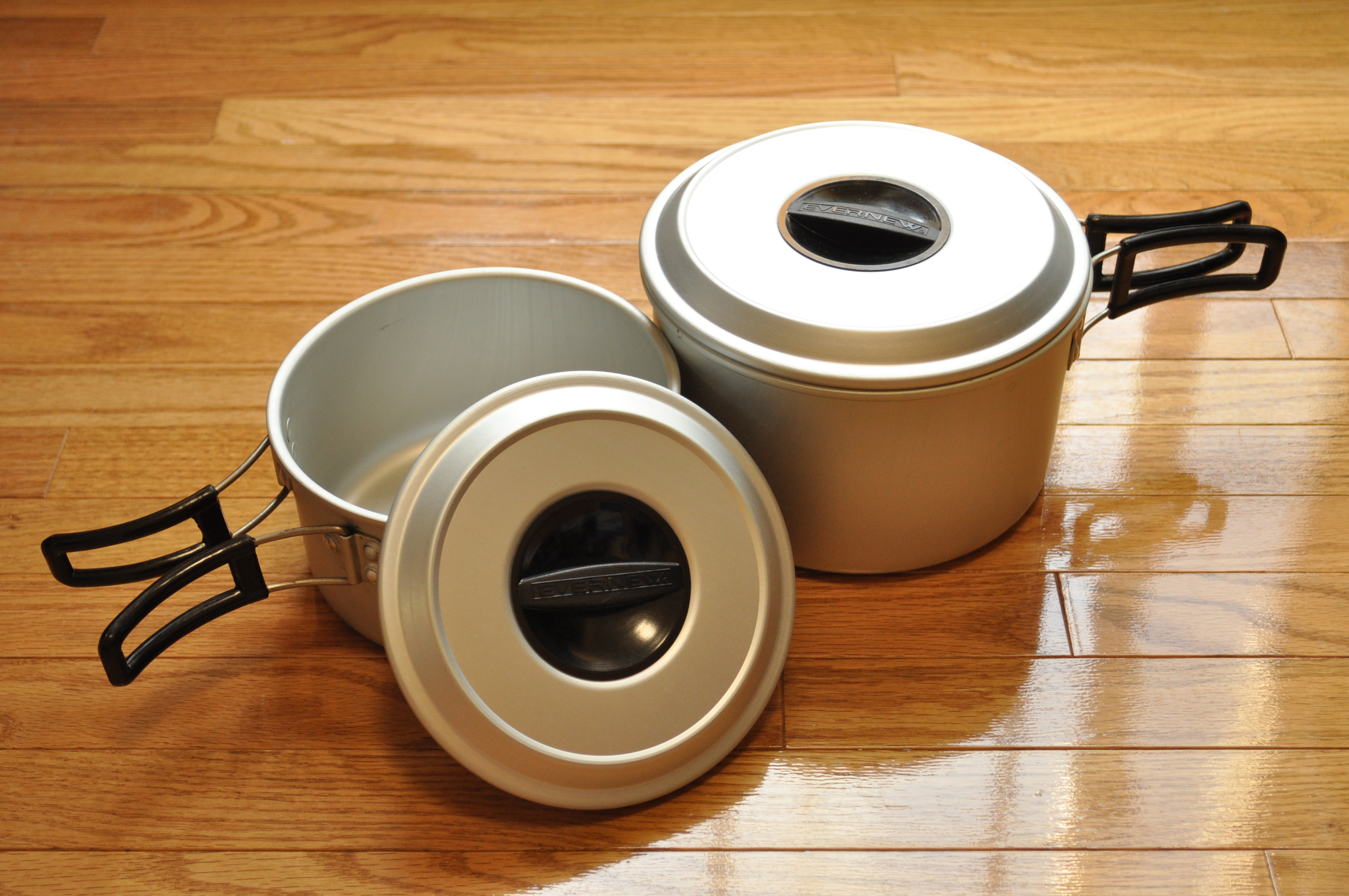 Alminium cooker